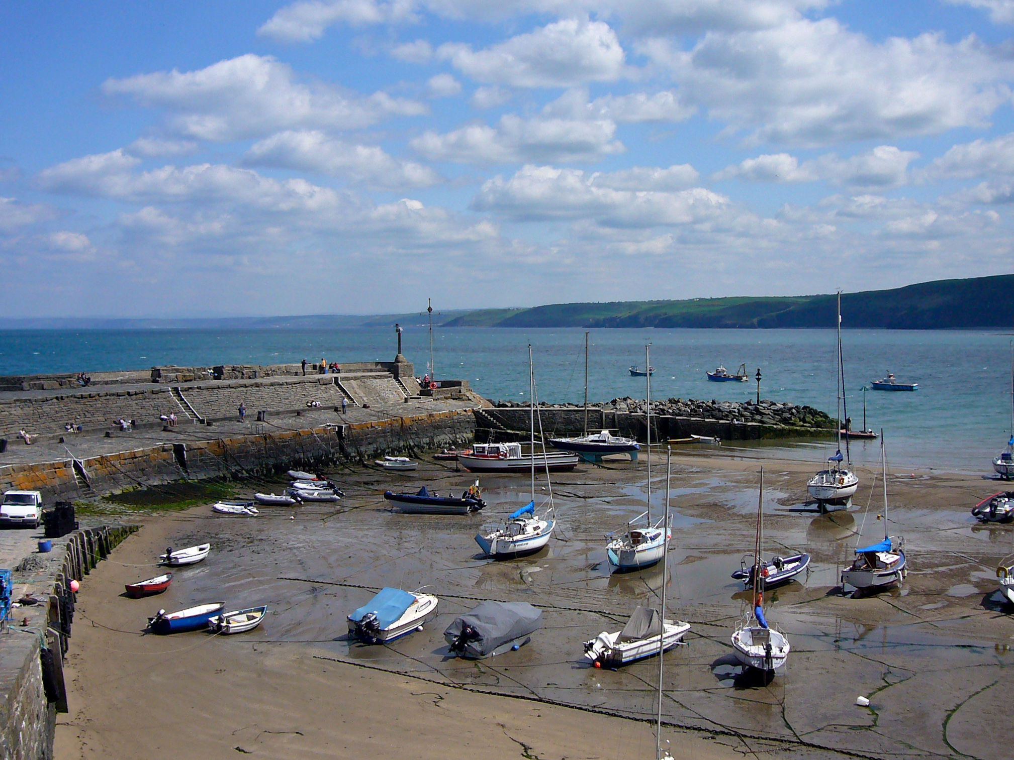 A view of the harbour at New Quay which is on Cardigan Bay, Ceredigion, Wales.